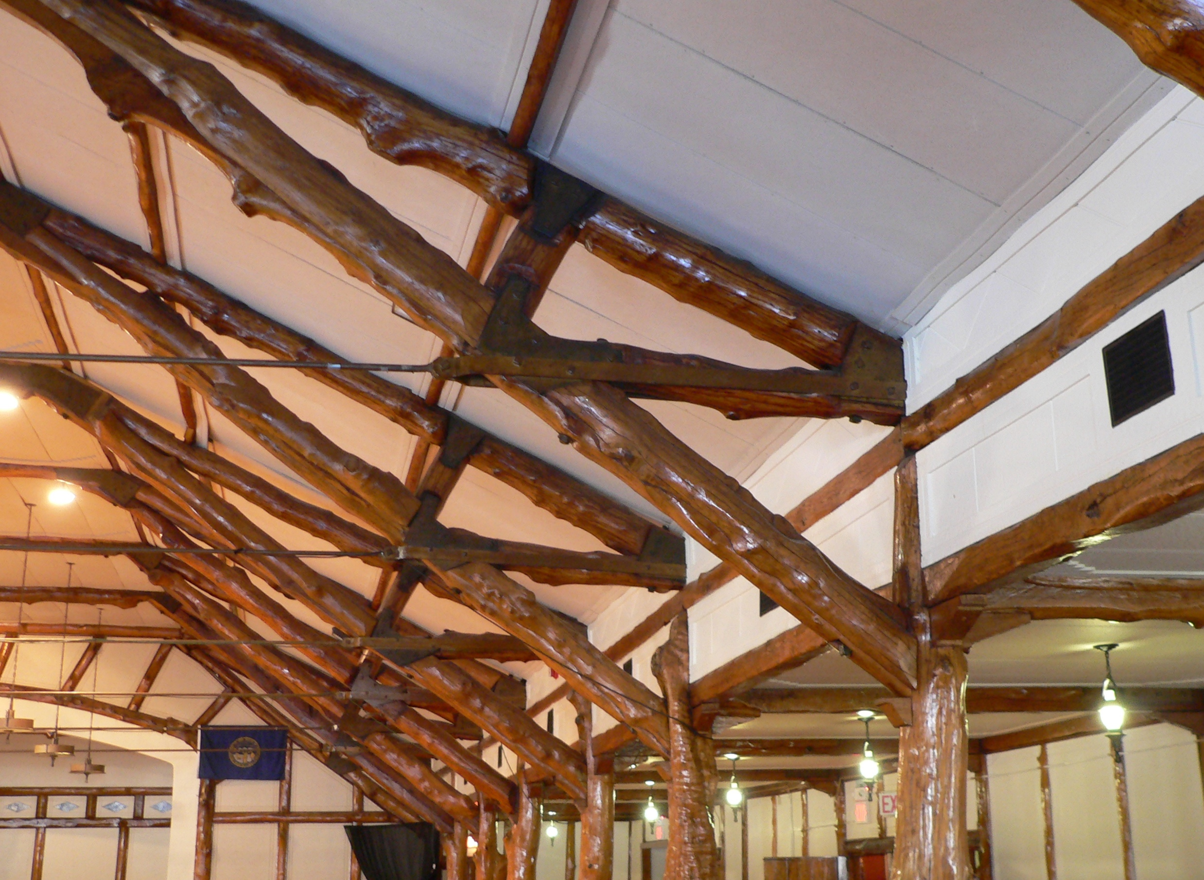 Detail of ceiling beams in Oak Ballroom in Schuyler, Nebraska. The building was designed in Tudor Revival style by architect Template:Emiel Christensen and built in 1935. It is listed in the National Register of Historic Places.